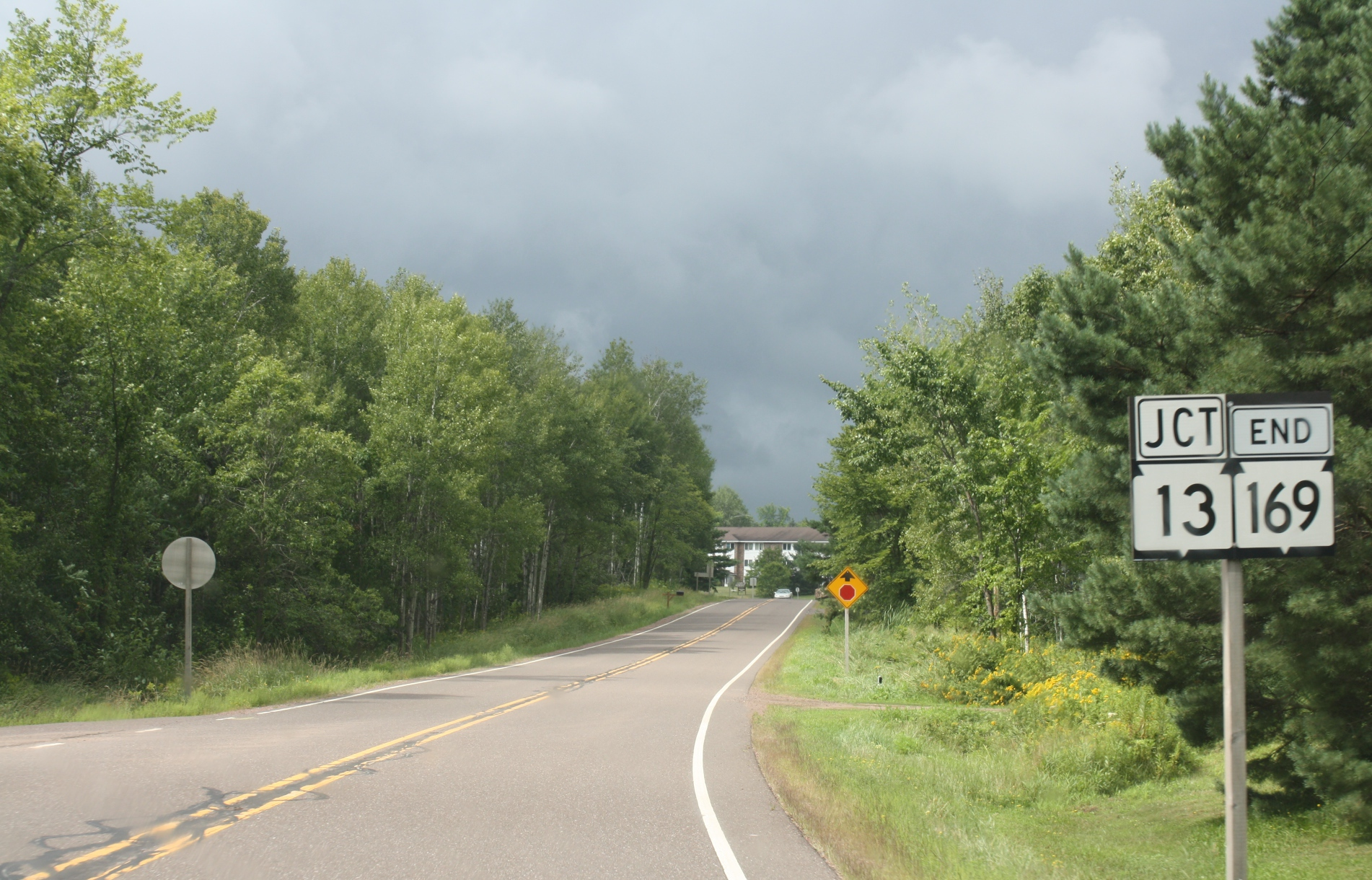 Looking south from the southern terminus for Wisconsin Highway 169.